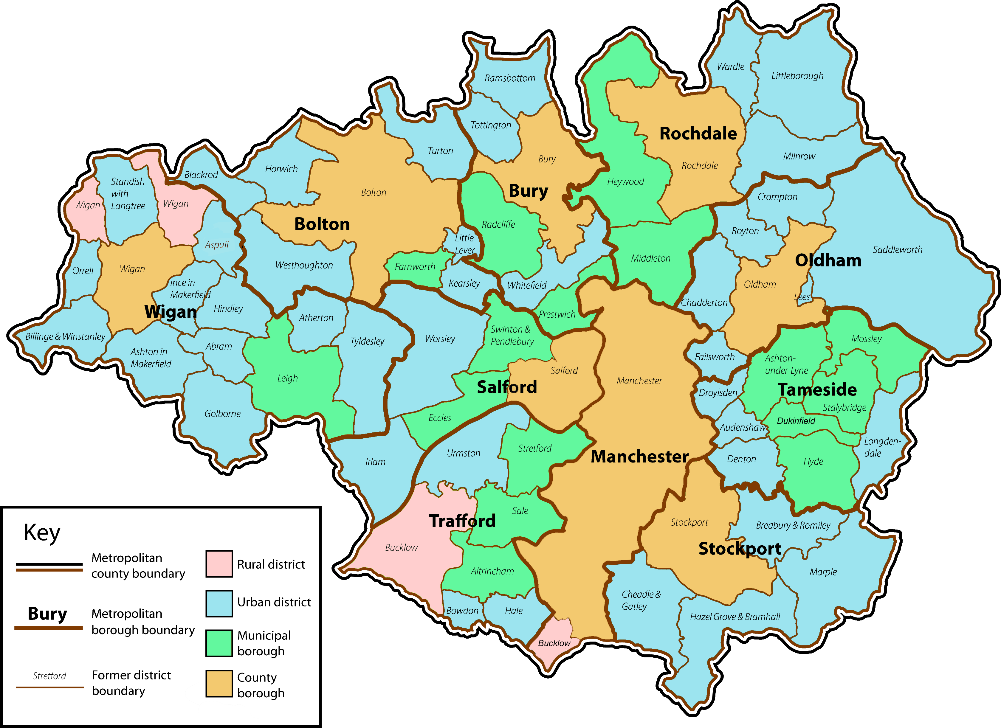 A map of the metropolitan county of Greater Manchester with the status of the former local government districts which now lie within its county boundaries.